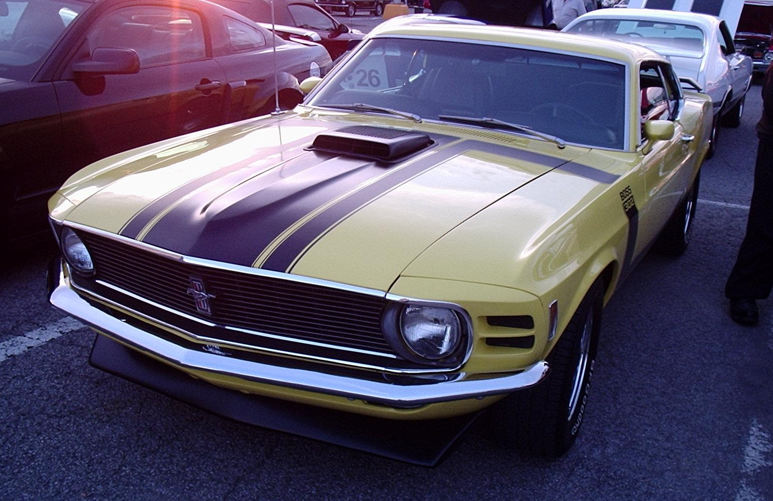 1970 Ford Mustang Boss 302 photographed in Laval, Quebec, Canada at Les chauds vendredis.